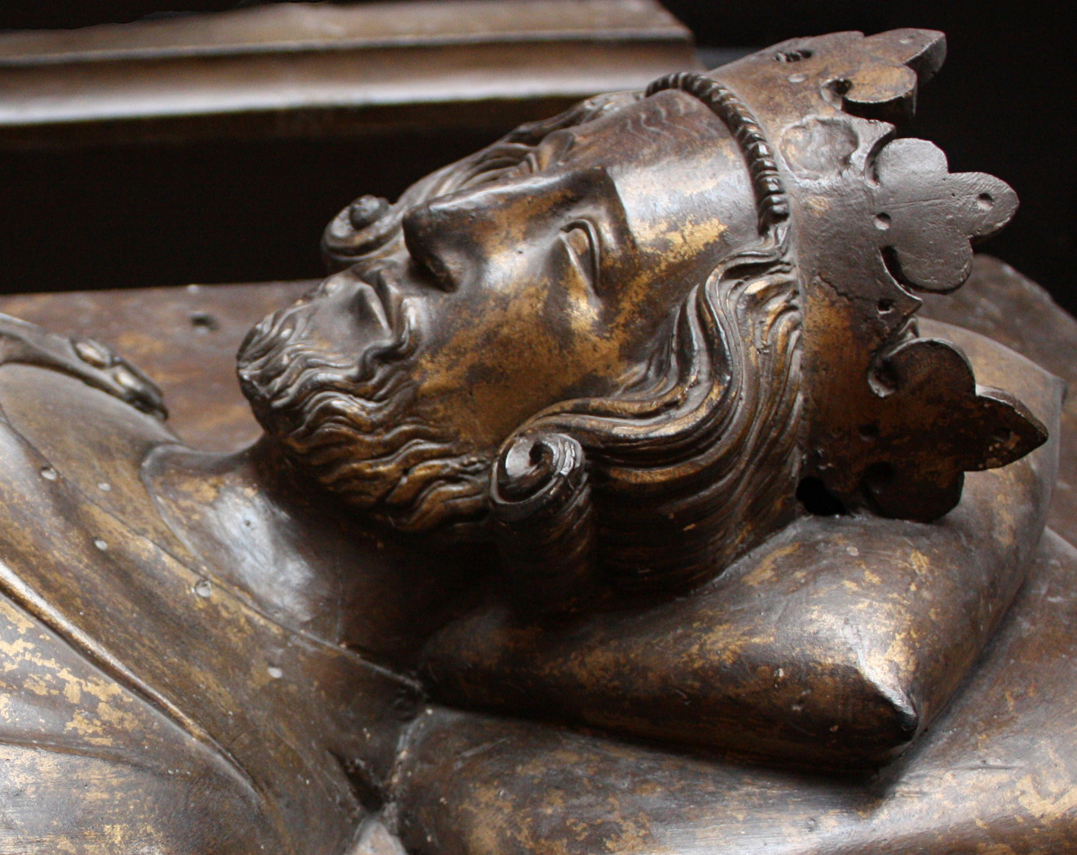 Head of Henry III from coffin; turned 90 degrees